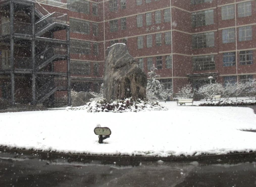 Photo of SPAS Campus, winter 2009/2010, immediately prior to school snowball fight.